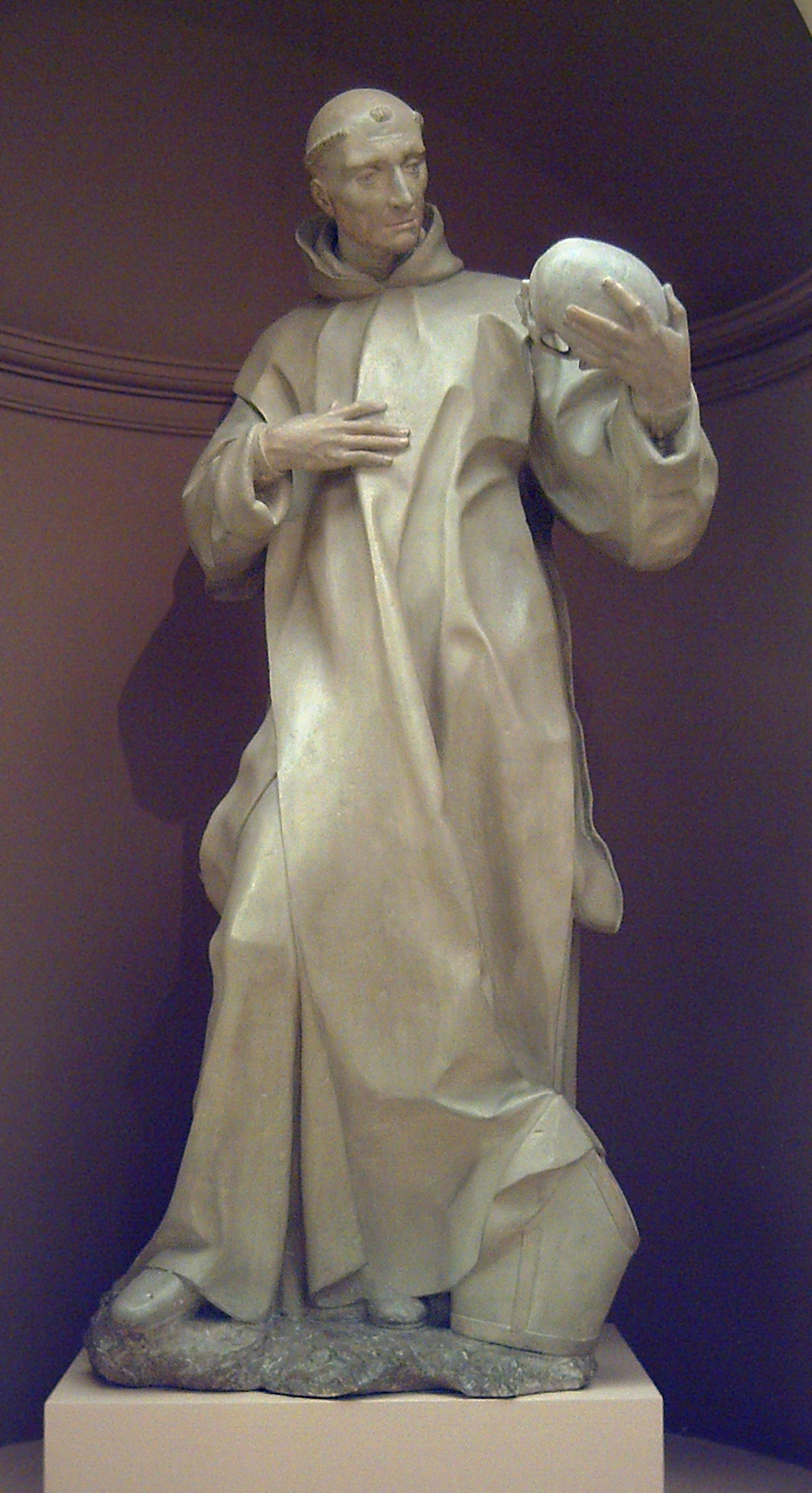 Depicted person: Saint Bruno (h.1030–1101)